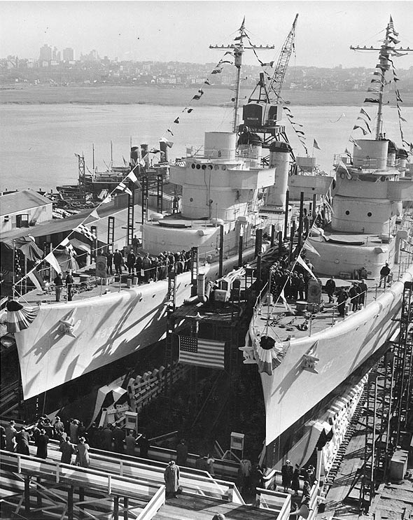 USS Aaron Ward (DD-483) - at left - and USS Buchanan (DD-484) ready for launching, at the Federal Shipbuilding and Dry Dock Company shipyard, Kearny, New Jersey, on 22 November 1941.